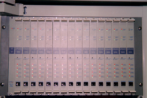 Image of a TRAME3 Router